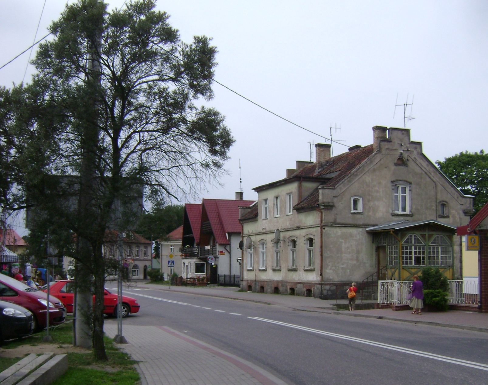 Poland. Jedwabno